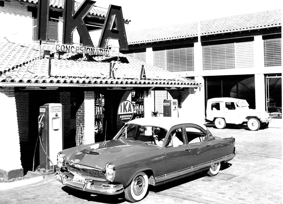 IKA car dealership in Argentina, where the company was established.